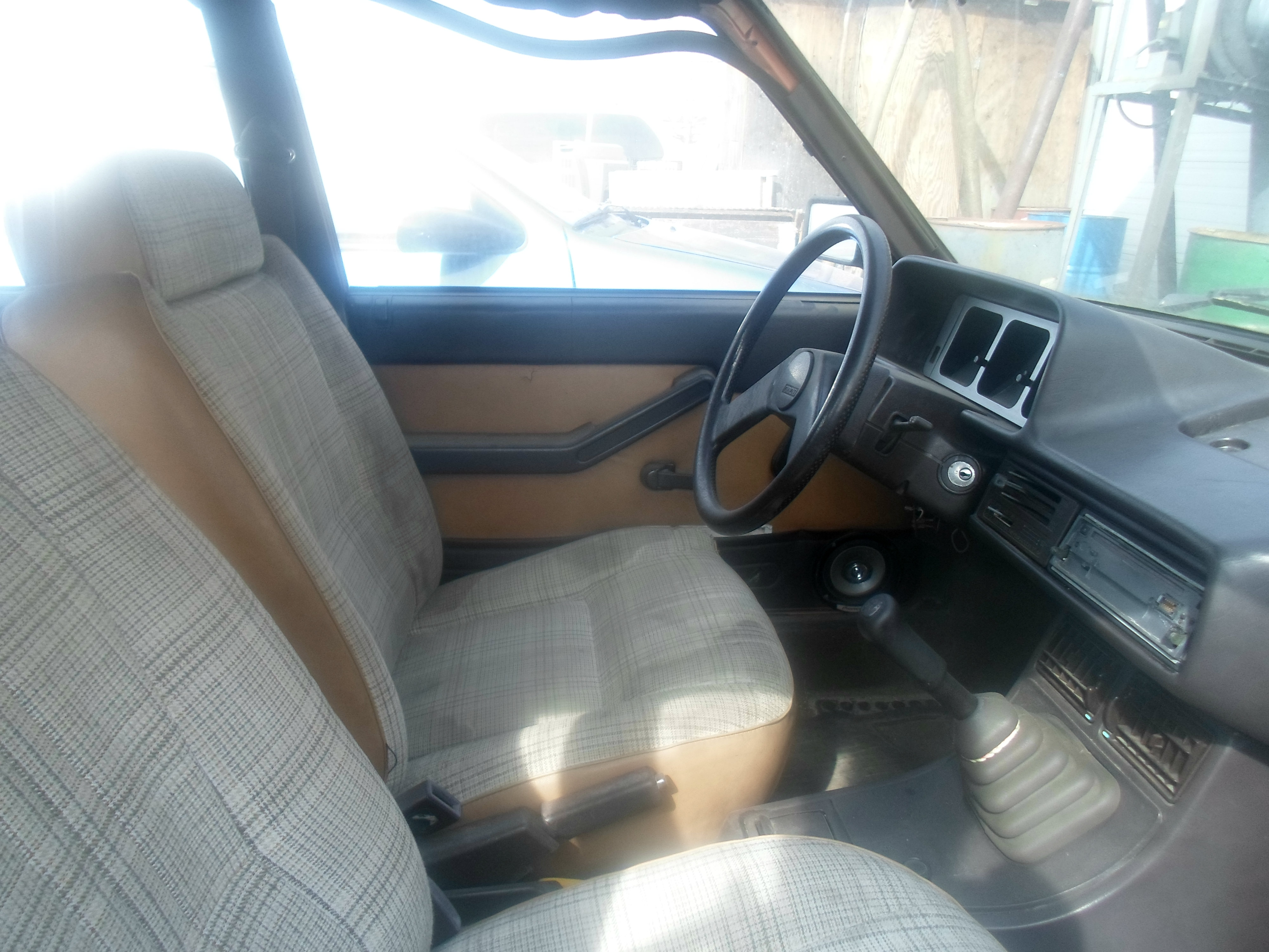 A surprise find - a Fiat Brava sedan. The Brava was the name for the Fiat 131 in North American market from 1978 to 1980. Five speed manual transmission.